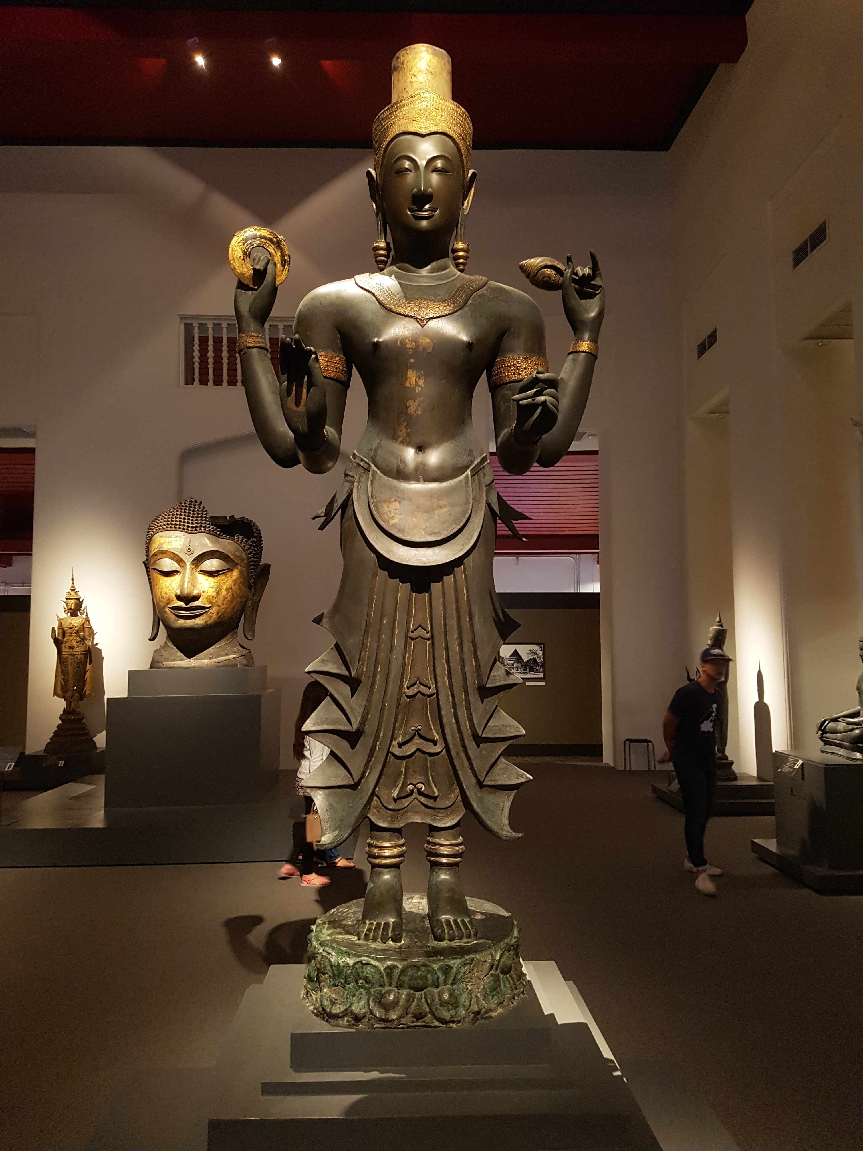 Place: Siwamok Phiman Hall, Bangkok National Museum, Bangkok, Thailand. Item: Statue of the Hindu god Viṣṇu, around 19/20th century BE (14/15th century CE), found at the Bangkok Hindu Shrine, Bangkok.